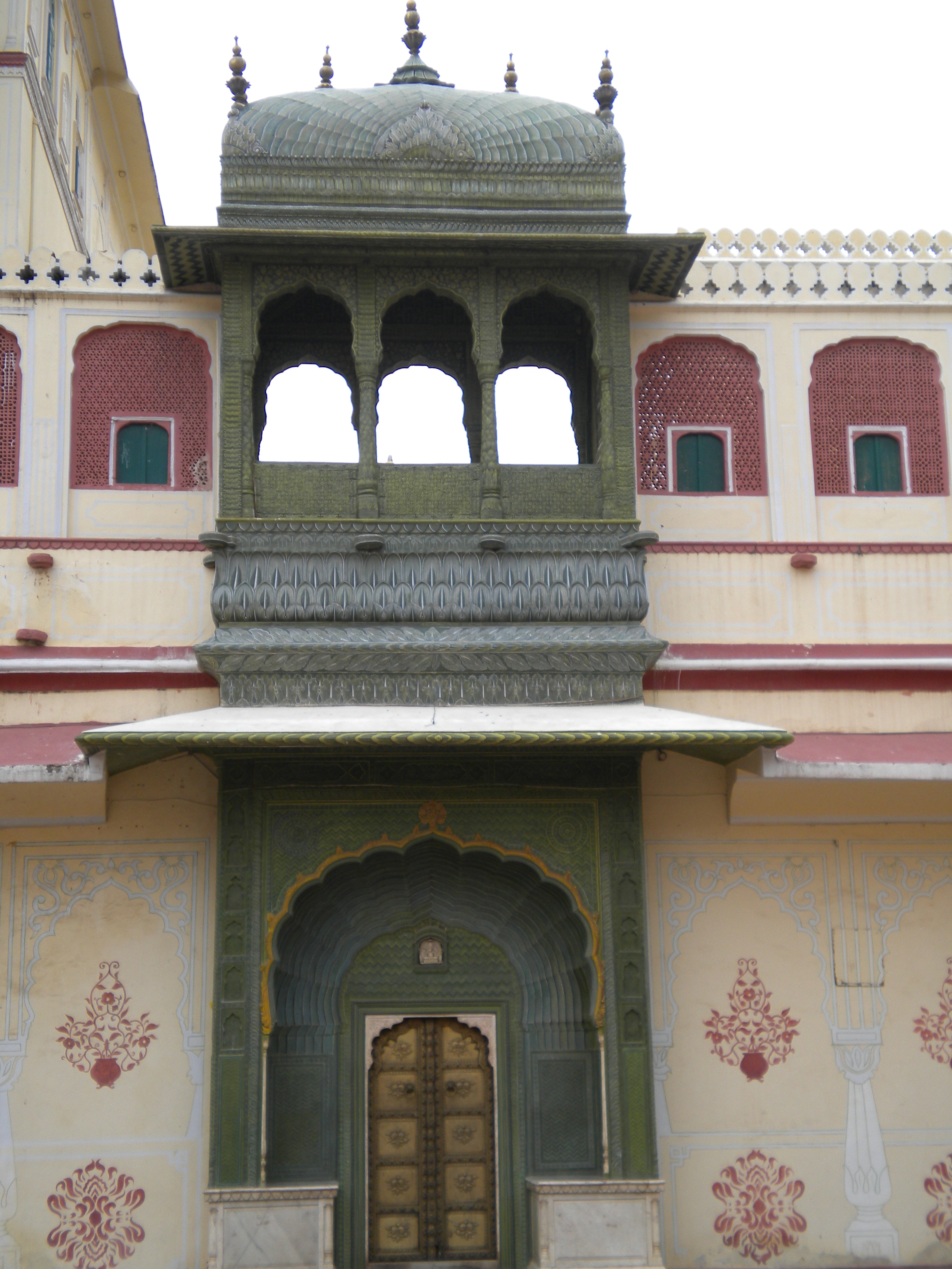 The Green Gate, one of the four gates at Pitam Niwas Chowk of City Palace, Jaipur. The four gates in this courtyard represent four seasons. This gate (Green Gate) represents Spring. ജയ്പൂർ സിറ്റി പാലസിലെ പീതം നിവാസ് ചൗക്കിലെ നാലു കവാടങ്ങളിലൊന്നായ ഹരിതകവാടം (ഗ്രീൻ ഗേറ്റ്). ഇവിടത്തെ നാലു വാതിലുകൾ നാല്‌ ഋതുക്കളെ പ്രതിനിധീകരിക്കുന്നു. വസന്തകാലത്തെയാണ് ഗ്രീൻ ഗേറ്റ് പ്രതിനിധീകരിക്കുന്നത്.